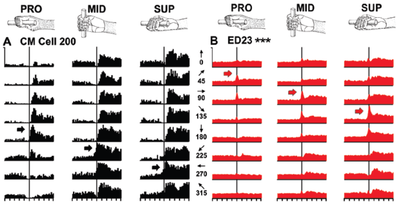 Disparity between the preferred direction of a CM cell and its target muscles. (A) CM cell activity aligned on movement onset (n ≥ 8 trials). (B) Activity of a muscle during movement (n ≥ 8 trials).